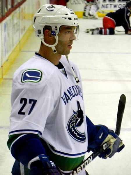 Manny Malhotra playing for the Vancouver Canucks during warm-up of a game vs. the Columbus Blue Jackets in the 2011-12 season. Vancouver lost the game 2-1 in a shoot-out